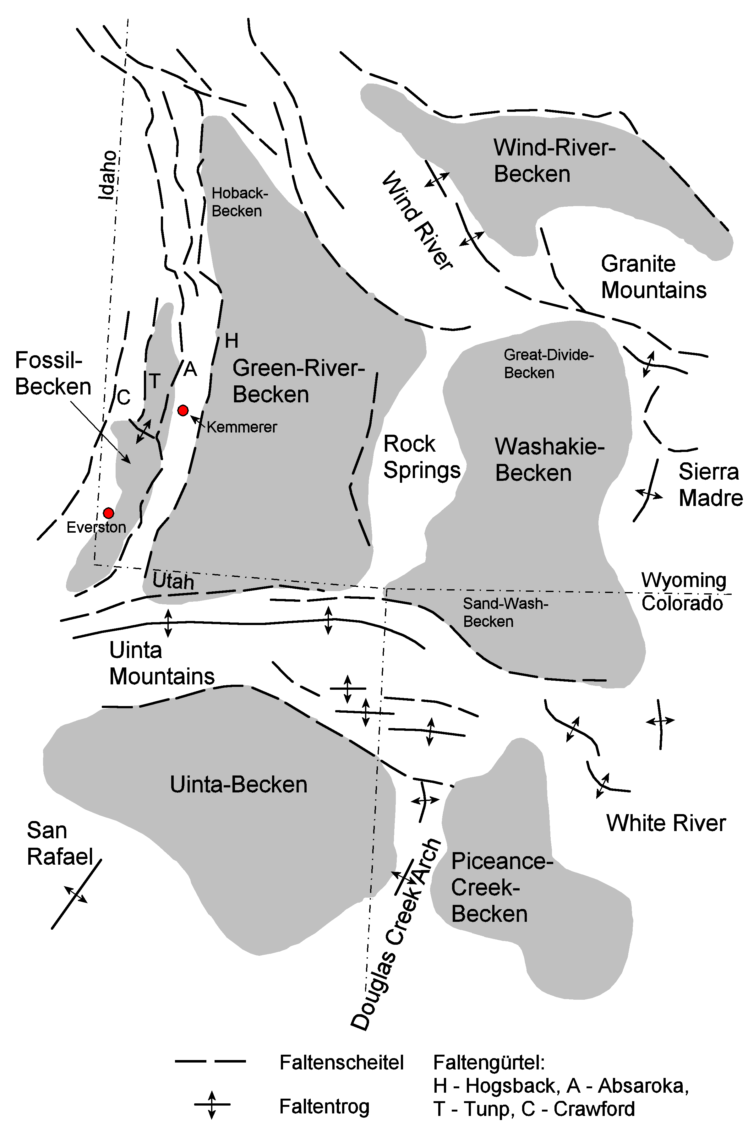 Distribution area of the Green River Formation, drawn after: H. Paul Buchheim, Robert A. Cushman Jr. and Roberto E. Biaggi: Stratigraphic revision of the Green River Formation in Fossil Basin, Wyoming: Overfilled to underfilled lake evolution. Rocky Mountain Geology 46 (2), 2011, pp. 165–181 (p. 166)